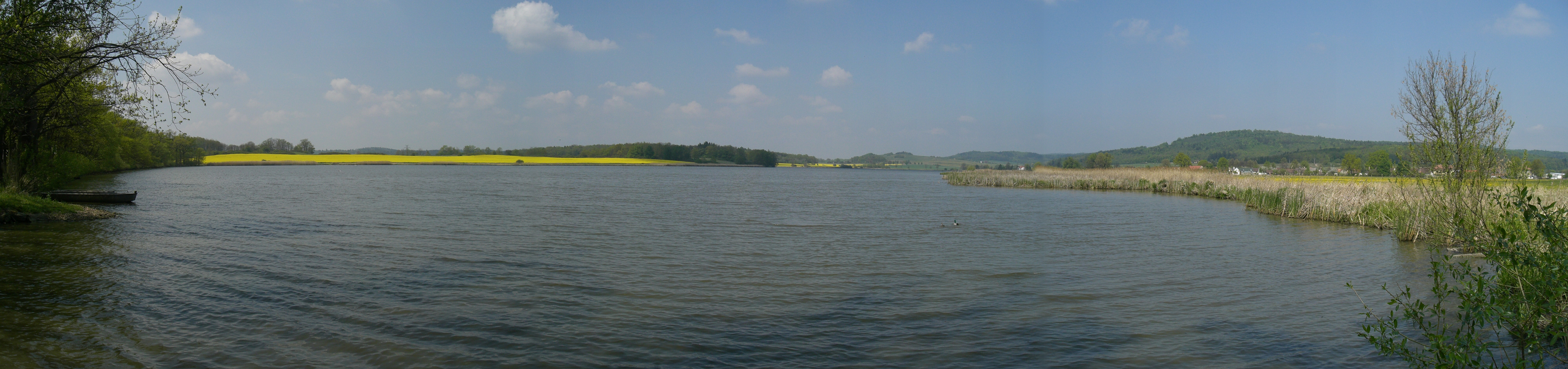 Tálínvillage, Písek district, Czech Republic. Tálín´s pond